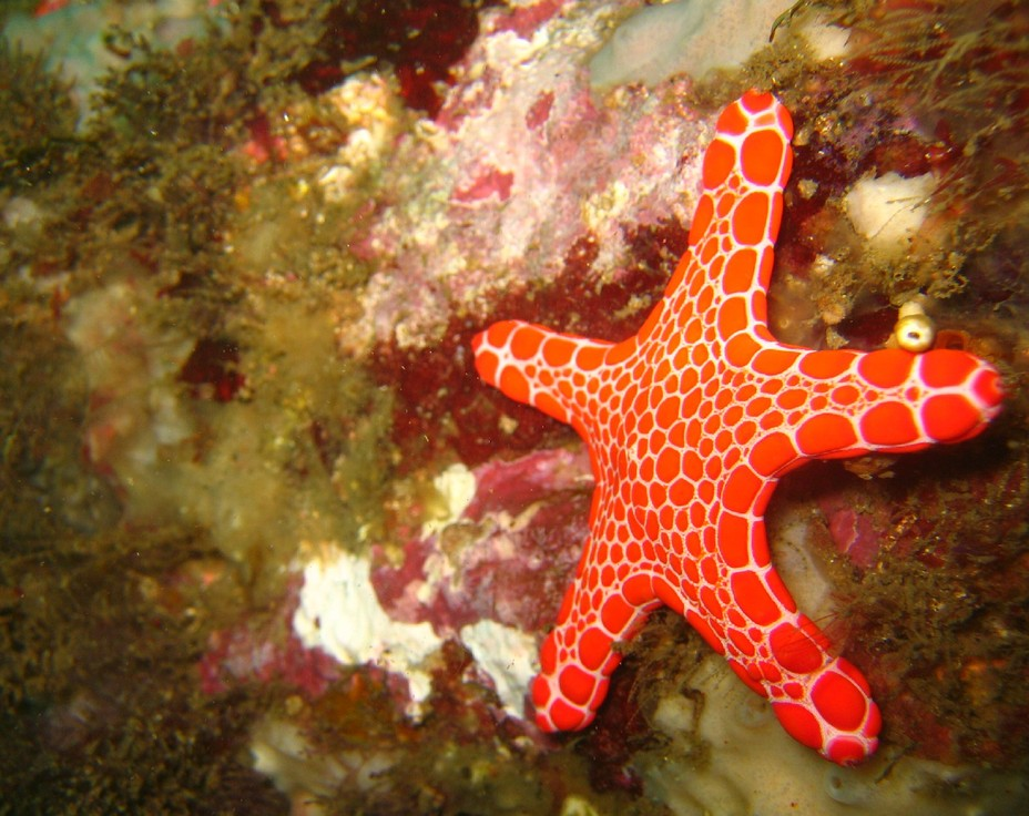 A Biscuit Star (Pentagonaster dubeni). Inscription Pt, Botany Bay, NSW